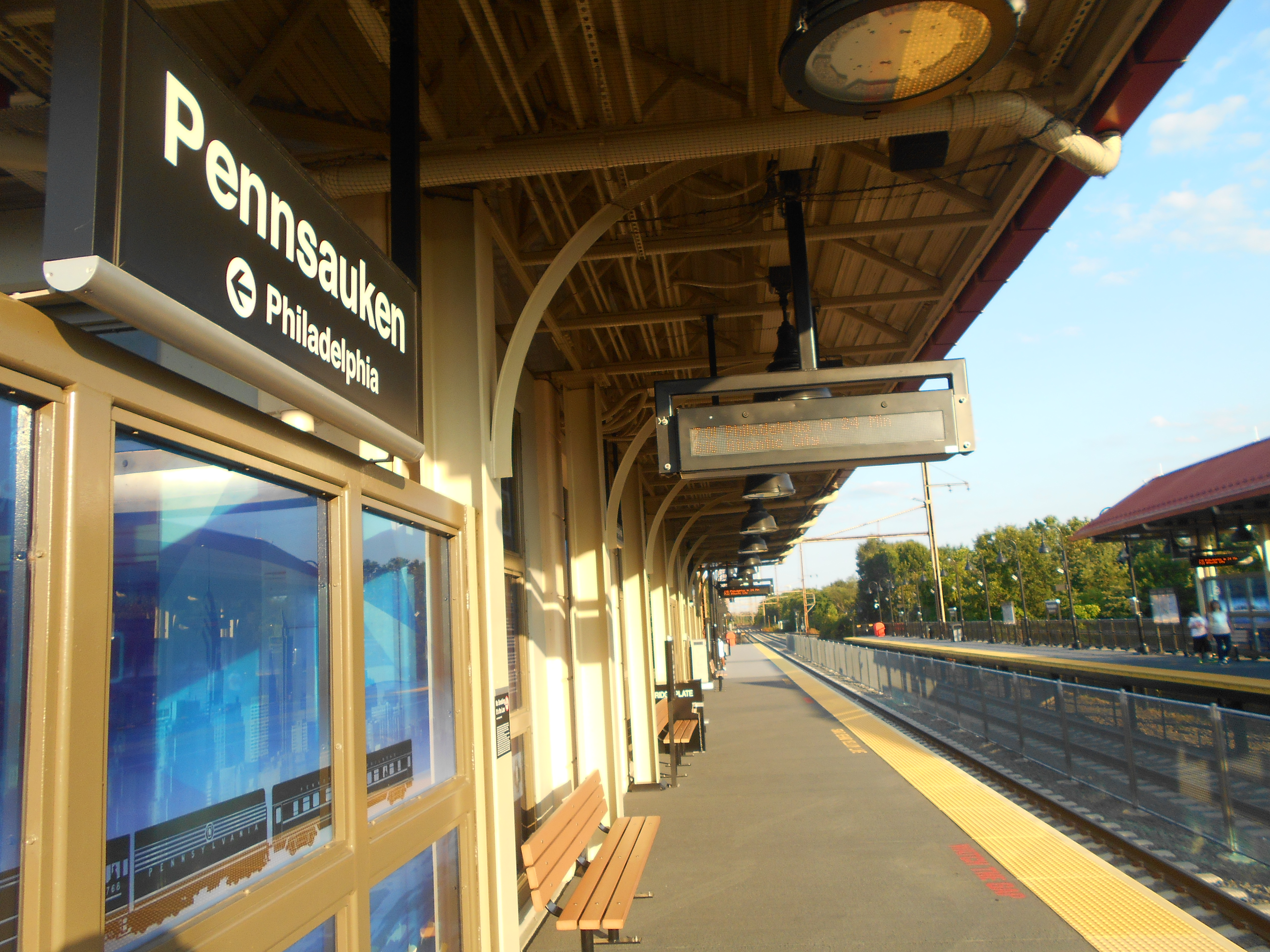 The Atlantic City Line station at Pennsauken Transit Center in Pennsauken, New Jersey.